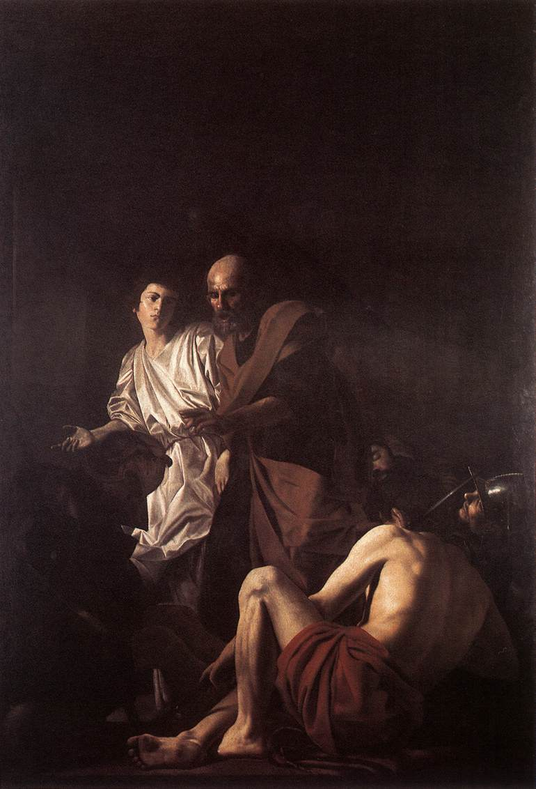 The Liberation of Saint Peter